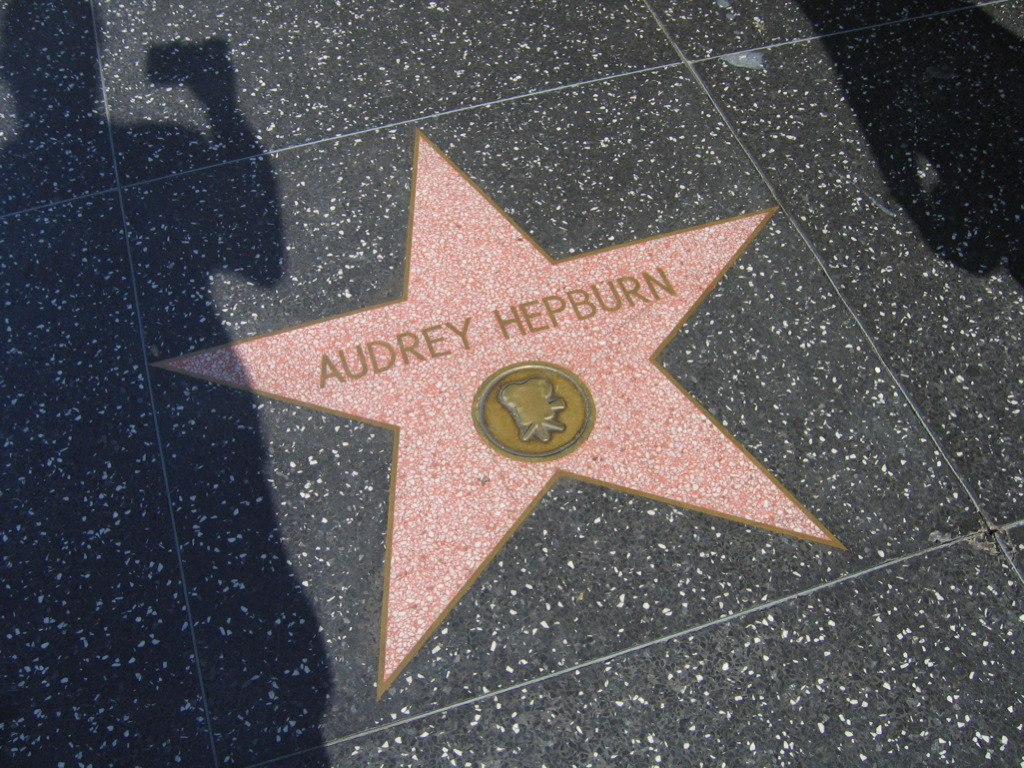 Photo of Audrey Hepburn Star on Hollywood Walk of Fame.